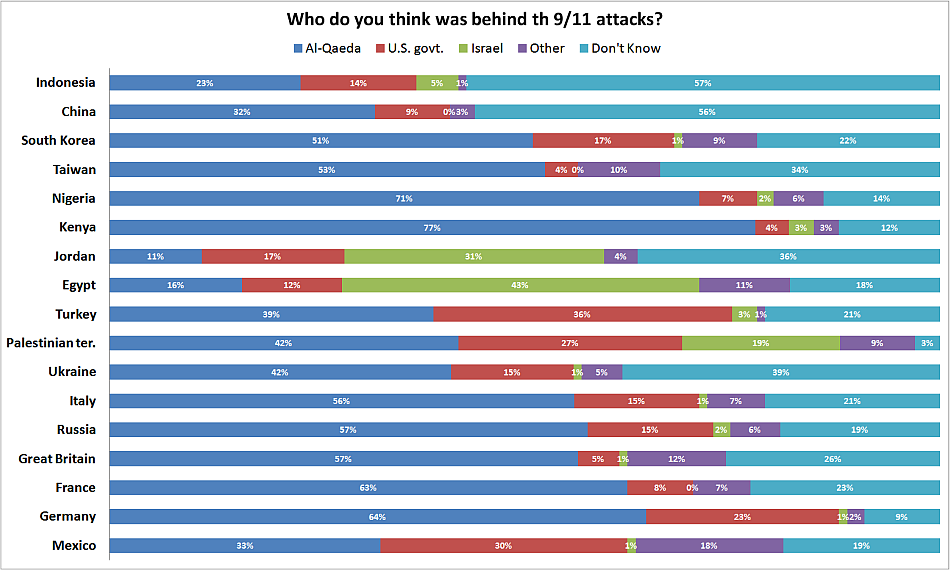 A graph based on the results of the world opinion poll of 2008 conducted by available here.